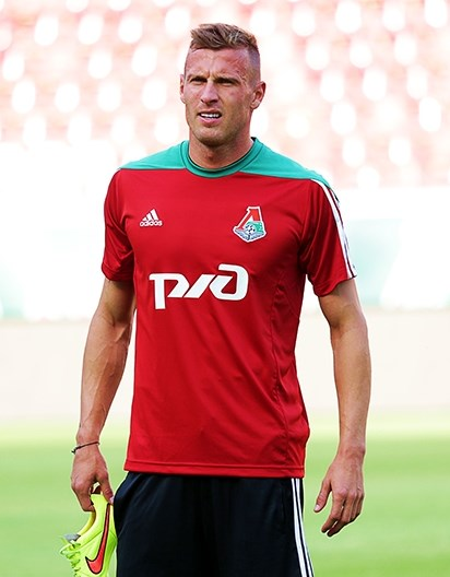 Ján Ďurica 14 1